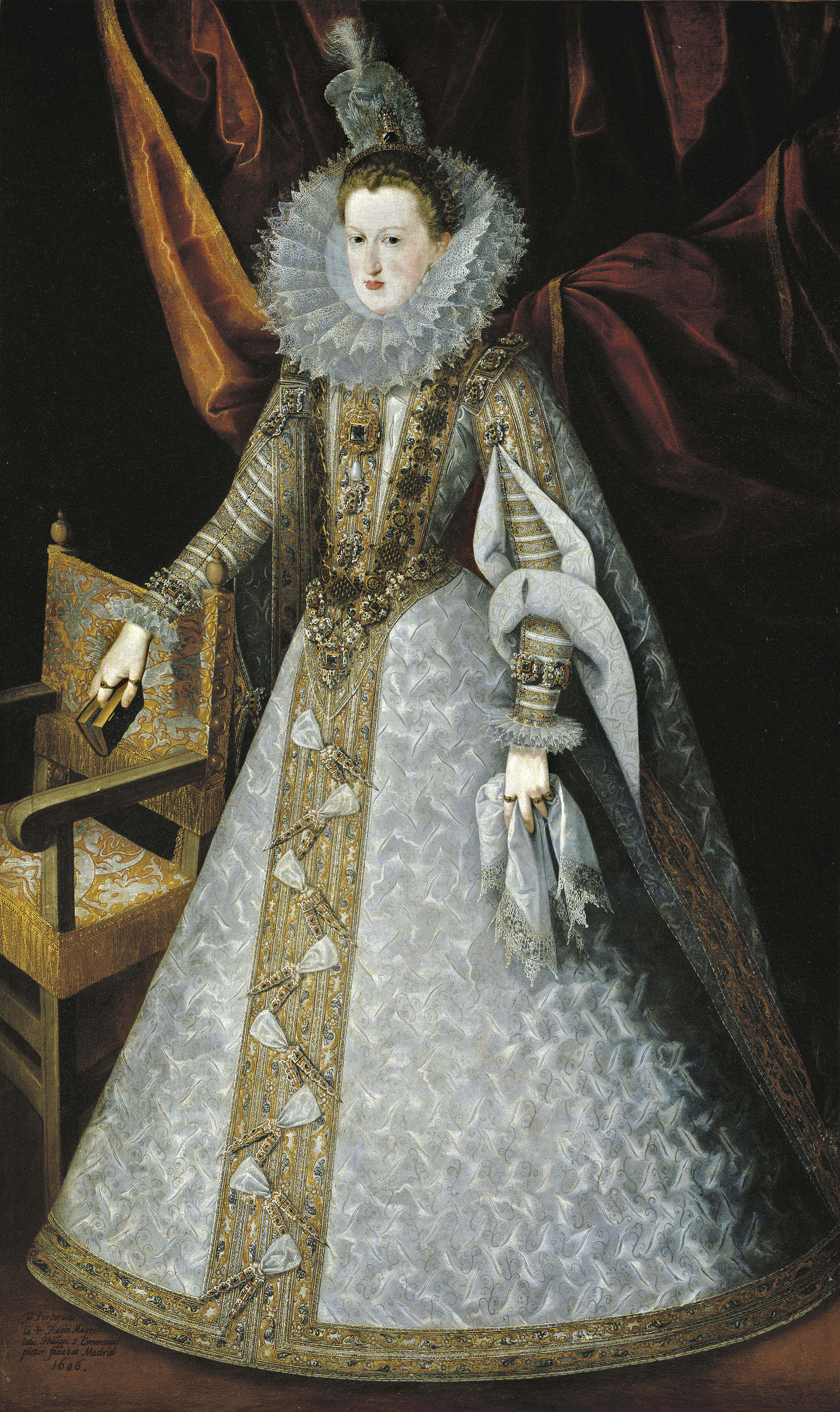 Portrait of Margaret of Austria (1584-1611), queen of Spain.